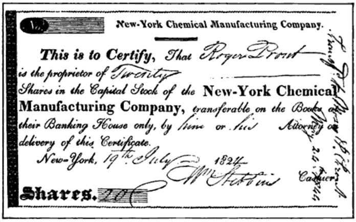 Certificate of Stock of the Chemical Manufacturing Company from 1824 - the predecessor of Chemical Bank